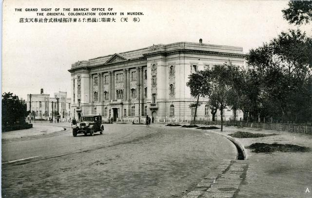 Oriental Development Company Mukden branch